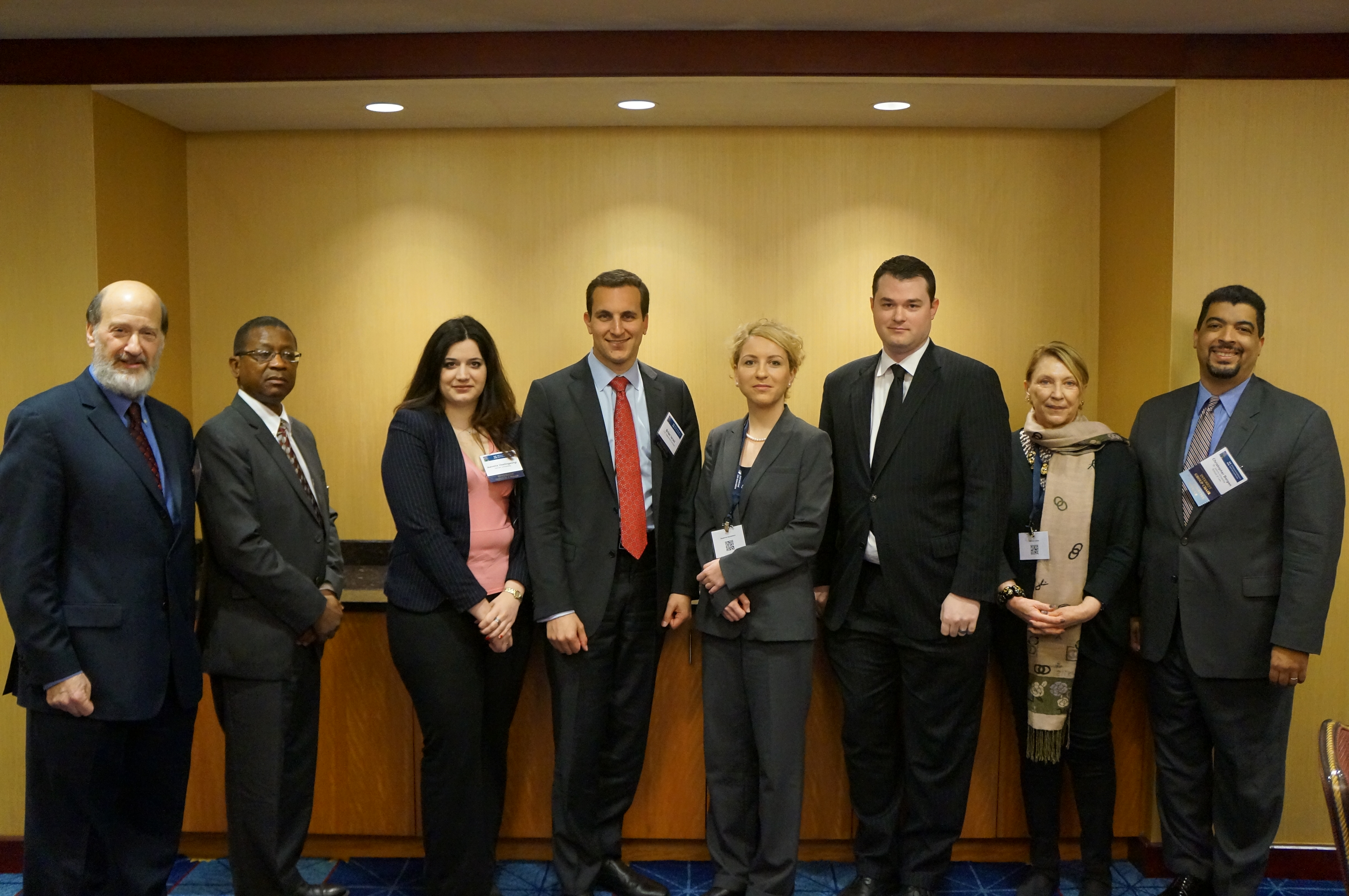 The Co-Chairs and members of the Space Law Interest Group of the American Society of International Law at the 2014 Business Meeting in Washington, DC. Not pictured is Gerald Shields who photographed the group.